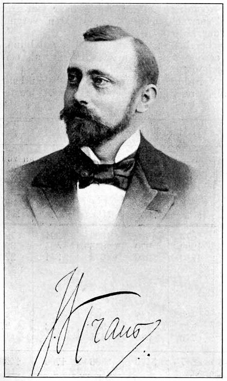 Jacob Kraus, 1900